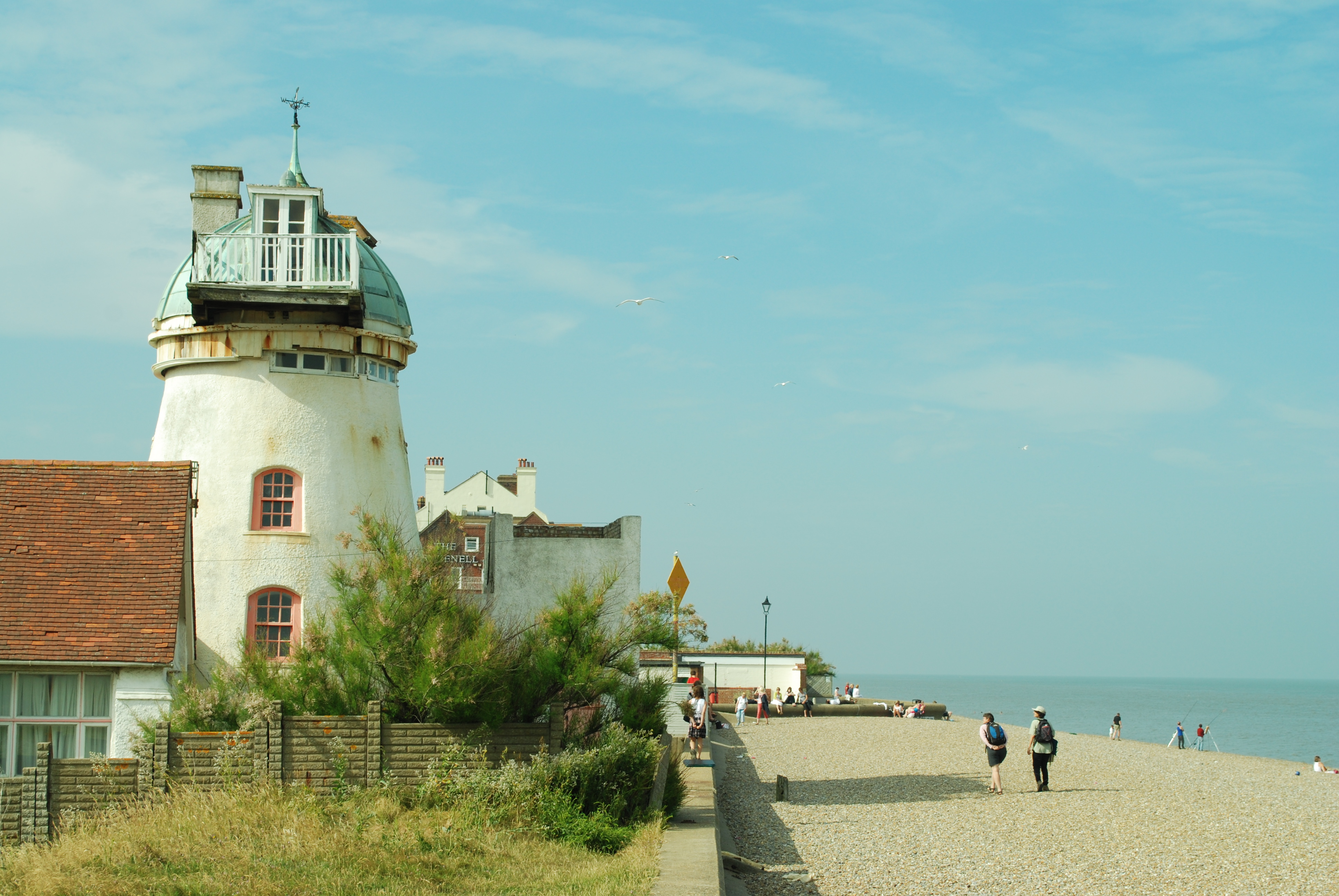 Aldeburgh: windmill converted to house.